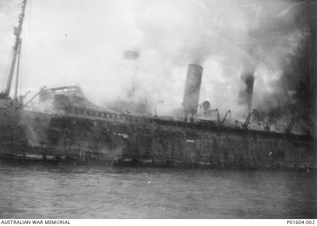 SINGAPORE. 1942-02-05. STARBOARD SIDE VIEW OF THE EXTENSIVELY DAMAGED BRITISH TRANSPORT THE EMPRESS OF ASIA AND NAVY RESCUE VESSELS. THE TRANSPORT WAS SET ON FIRE DURING A BOMBING ATTACK BY JAPANESE AIRCRAFT. IT WAS ONE OF FOUR SHIPS BRINGING THE REMAINDER OF THE 18TH BRITISH DIVISION, SOME OTHER TROOPS, AND TRANSPORT VEHICLES TO THE ISLAND. MOST OF THE TROOPS WERE RESCUED BY THE NAVY, BUT NEARLY ALL THEIR WEAPONS AND EQUIPMENT WERE LOST. (DONOR M. PARKIN)